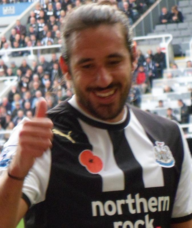 Argentinian footballer Jonás Gutiérrez interacting with Newcastle United supporters at St James' Park in 2011.